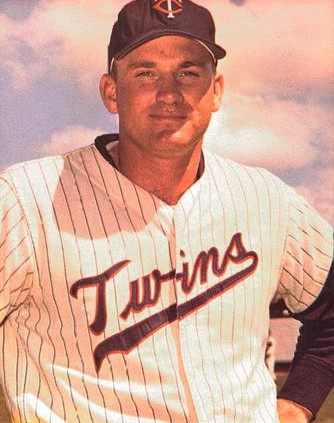 Professional baseball player Harmon Killebrew